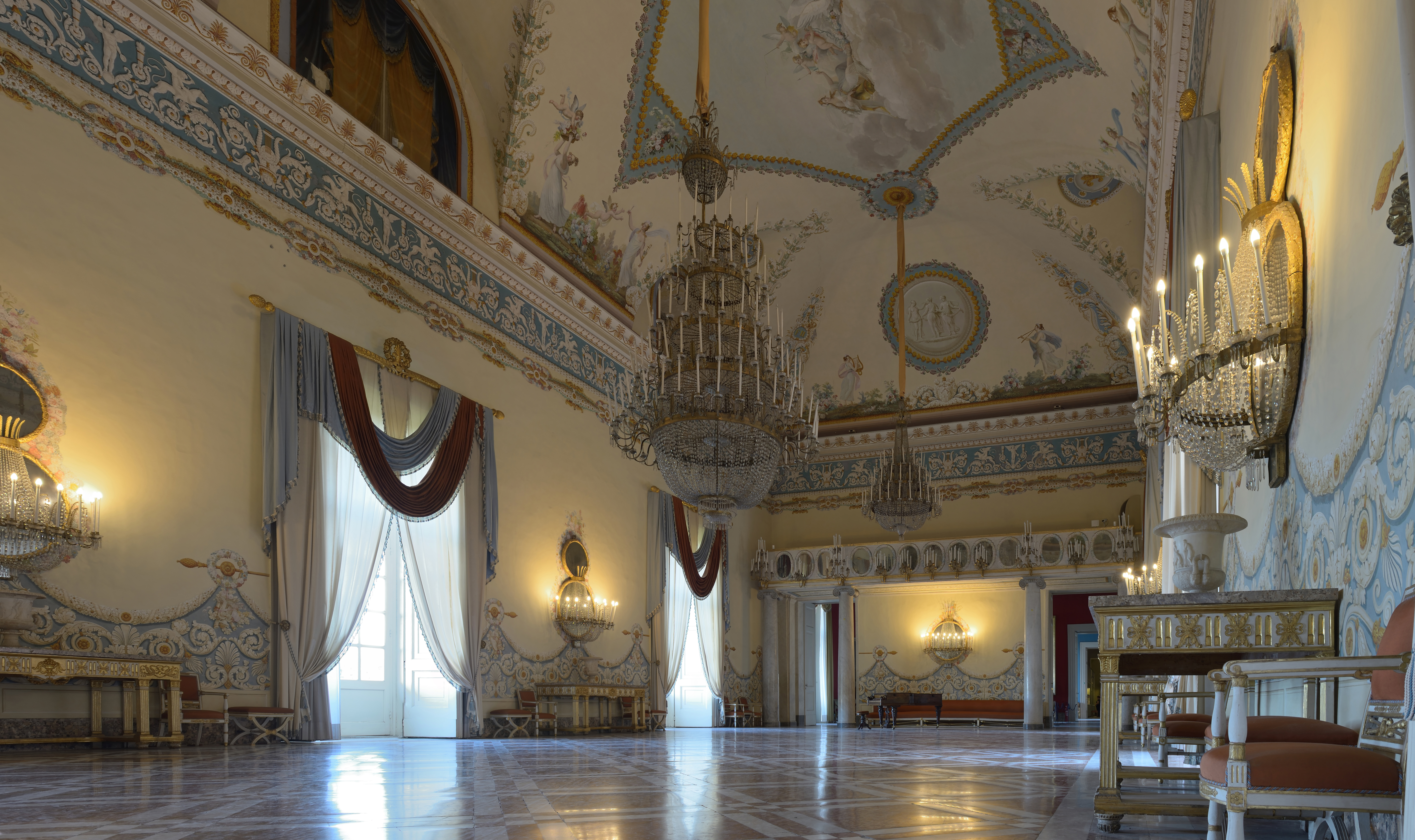 Salone delle feste in the Museo di Capodimonte in Naples.